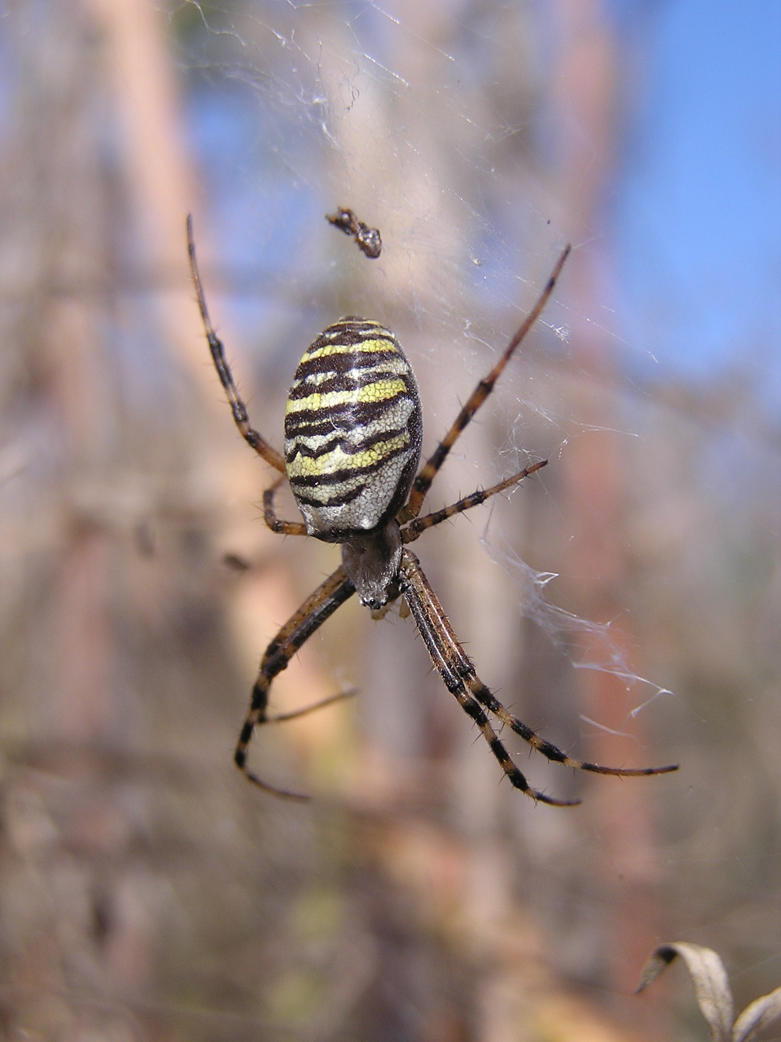 The wasp spider, Ukraine